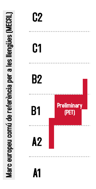 Comparison between the exam Cambridge